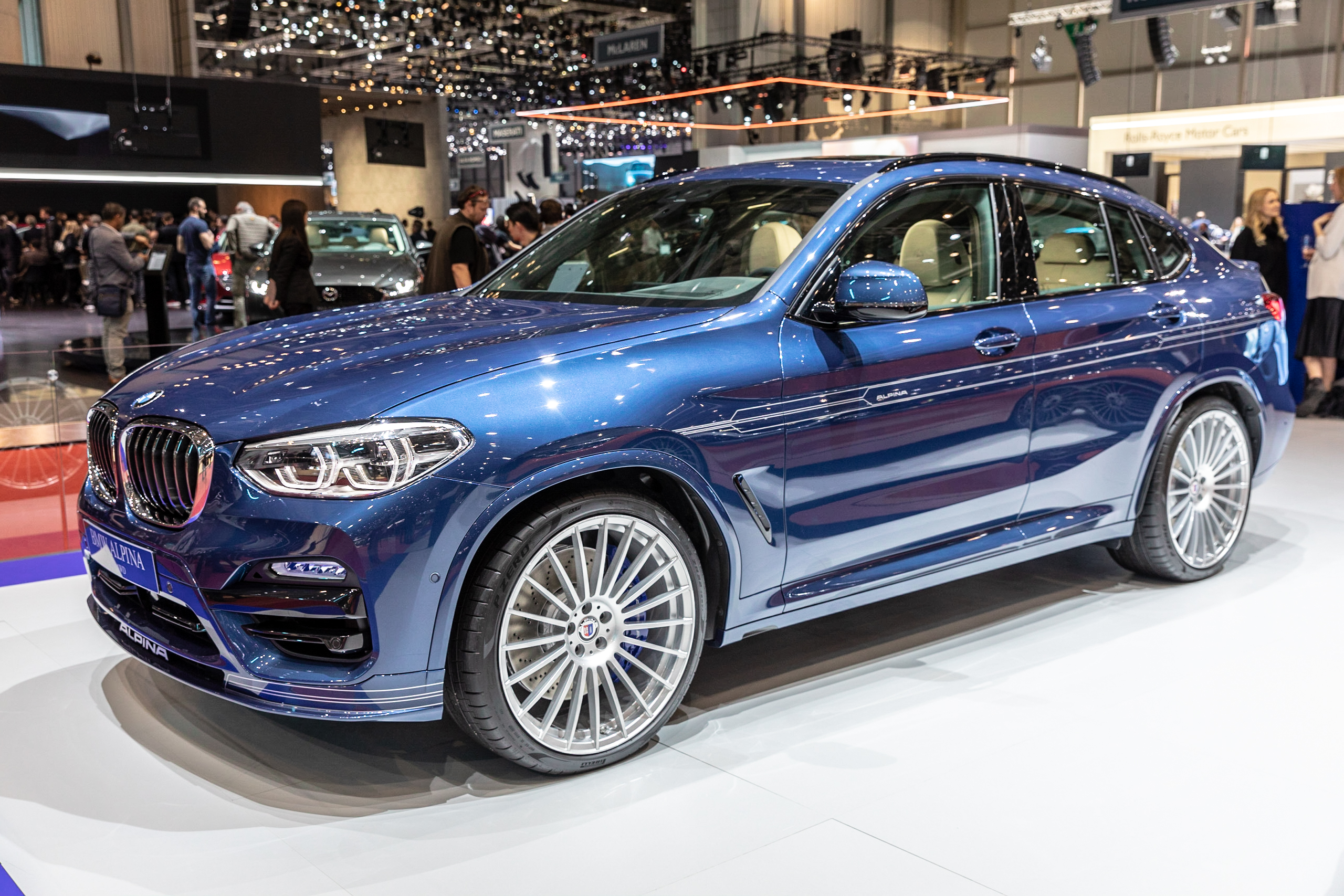 Geneva International Motor Show 2019, Le Grand-Saconnex